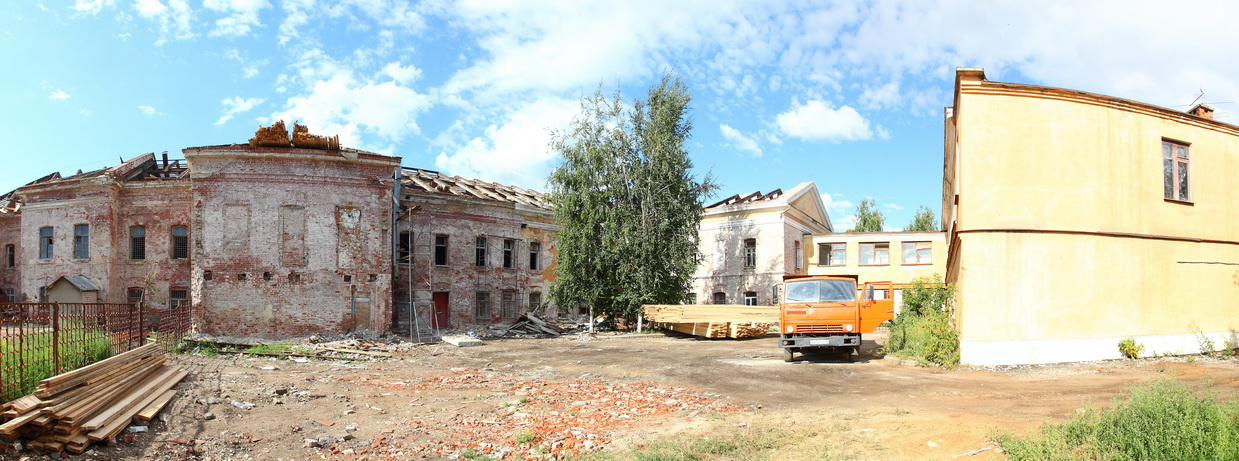 г.Казань, ул.К.Маркса,17. Реставрационные работы над Главным зданием Адмиралтейской конторы